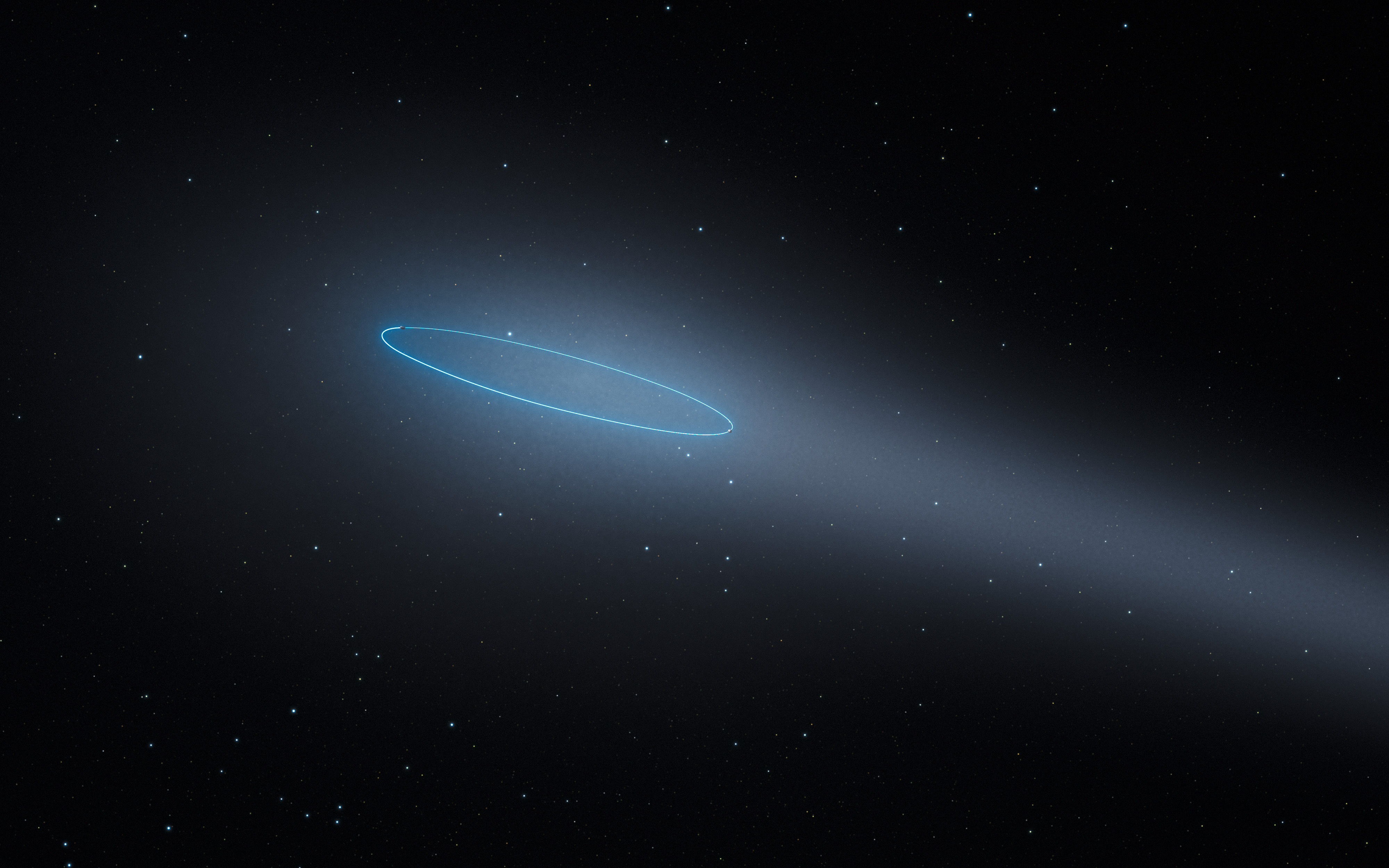 This artist’s impression shows the binary asteroid 288P, located in the main asteroid belt between the planets Mars and Jupiter. The object is unique as it is a binary asteroid which also behaves like a comet. The comet-like properties are the result of water sublimation, caused by the heat of the Sun. The orbit of the asteroids is marked by a blue ellipse.